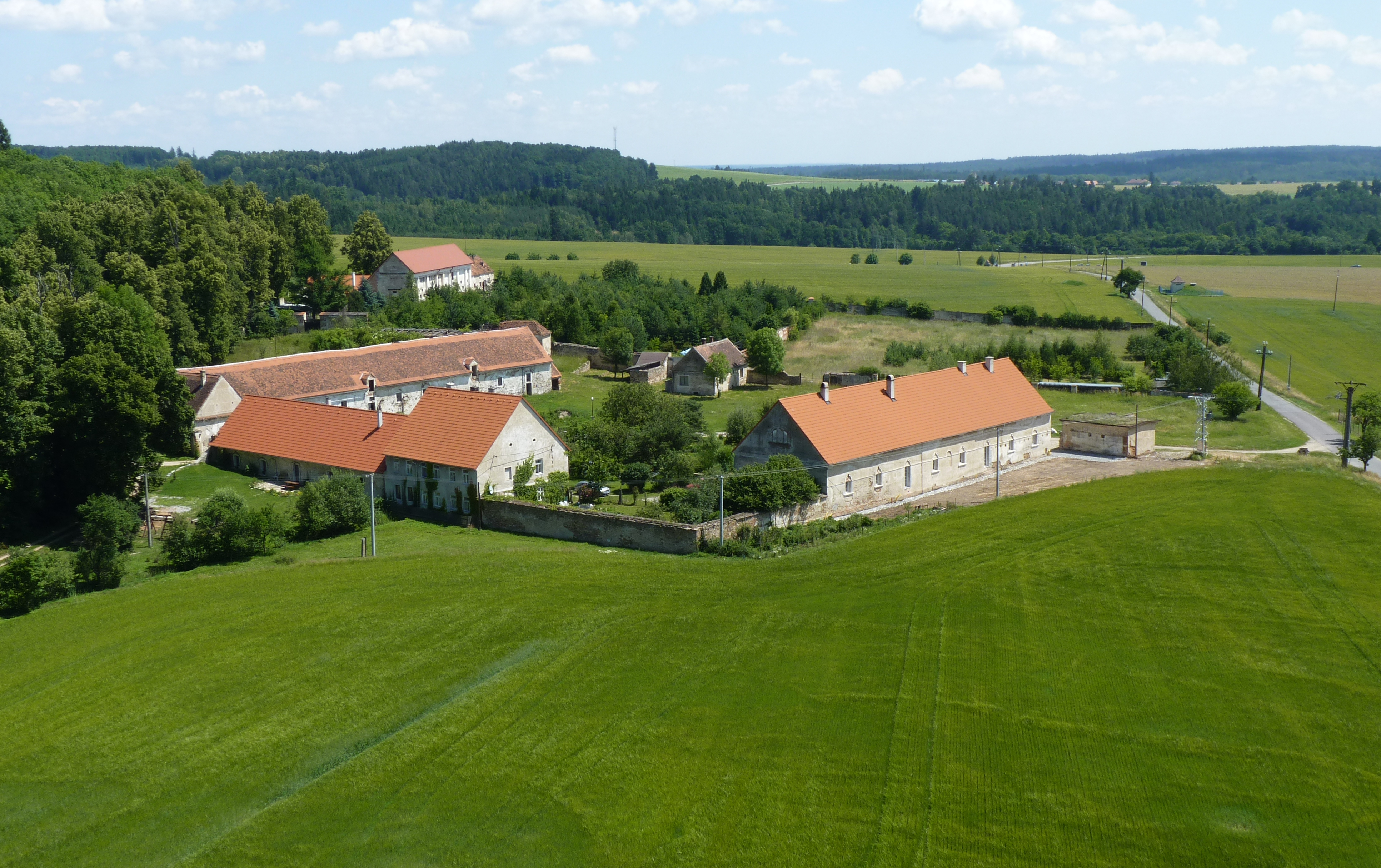 Observation tower Rumburak, Znojmo District, South Moravian Region, Czech Republic